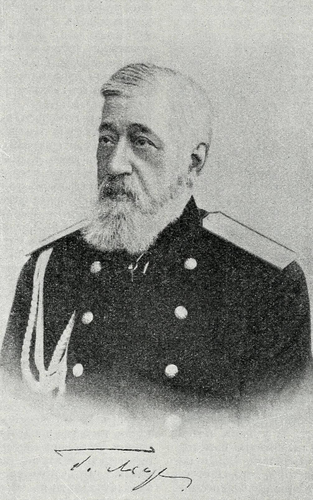 Leer, Genrich Antonovitch.